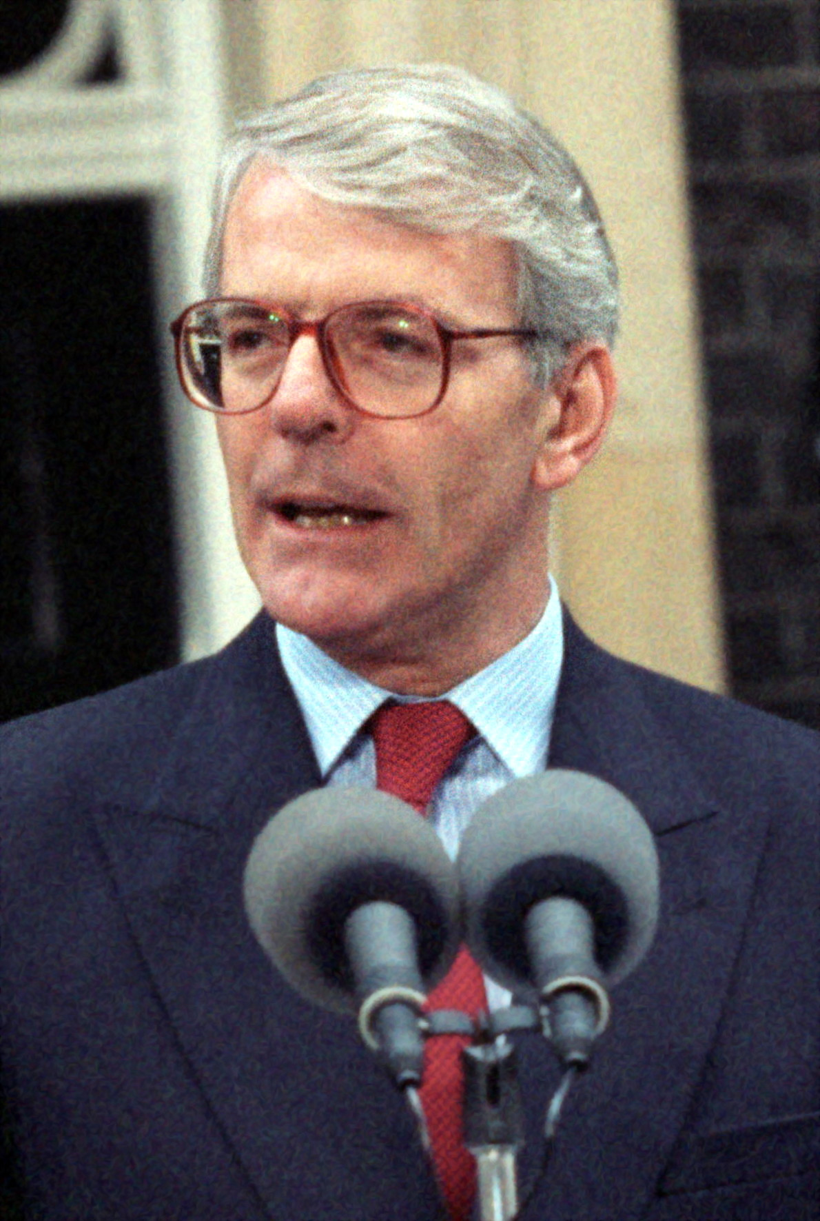 Prime Minister John Major of the United Kingdom in front of #10 Downing Street, London